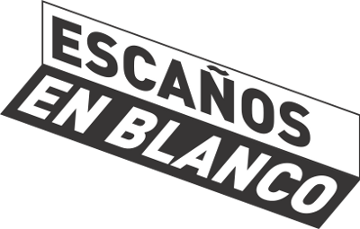 Logo of Escaños en blanco